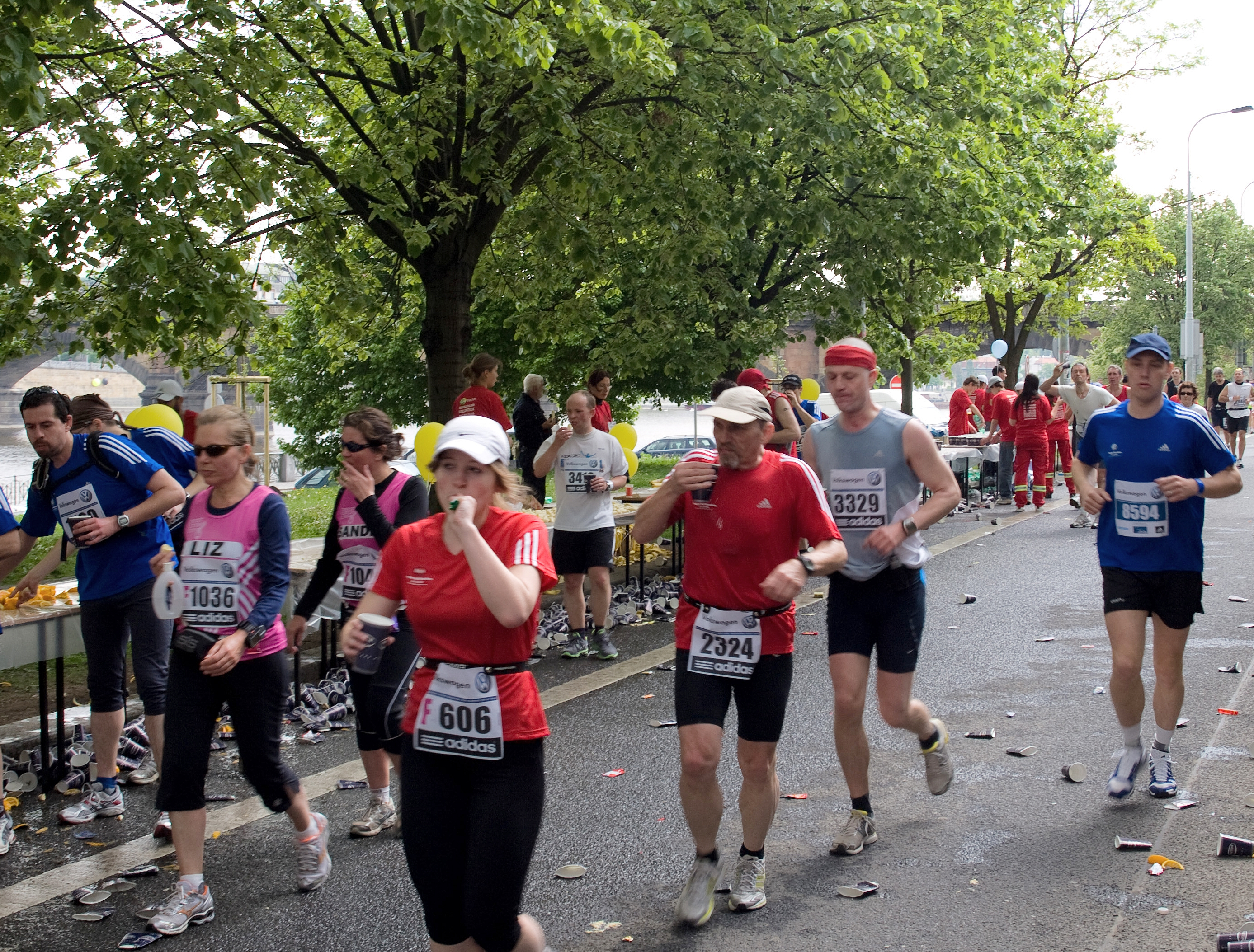 Nábřežní street, cca 31 km, Prague International Marathon 2010